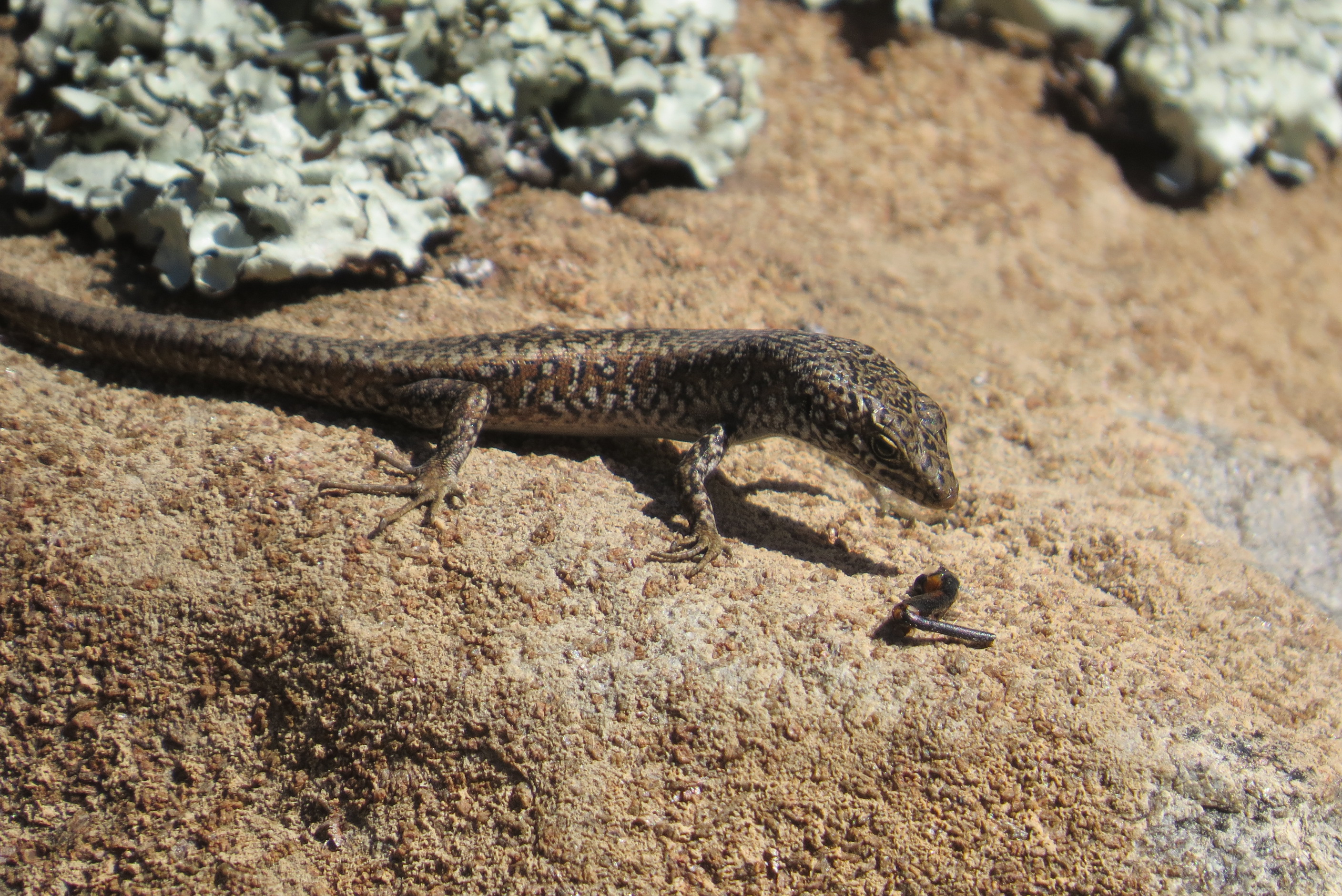 Ocellated Skink at Cataract Gorge in Tasmania, Australia